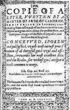 front page of a printed edition of Leicester's Commonwealth